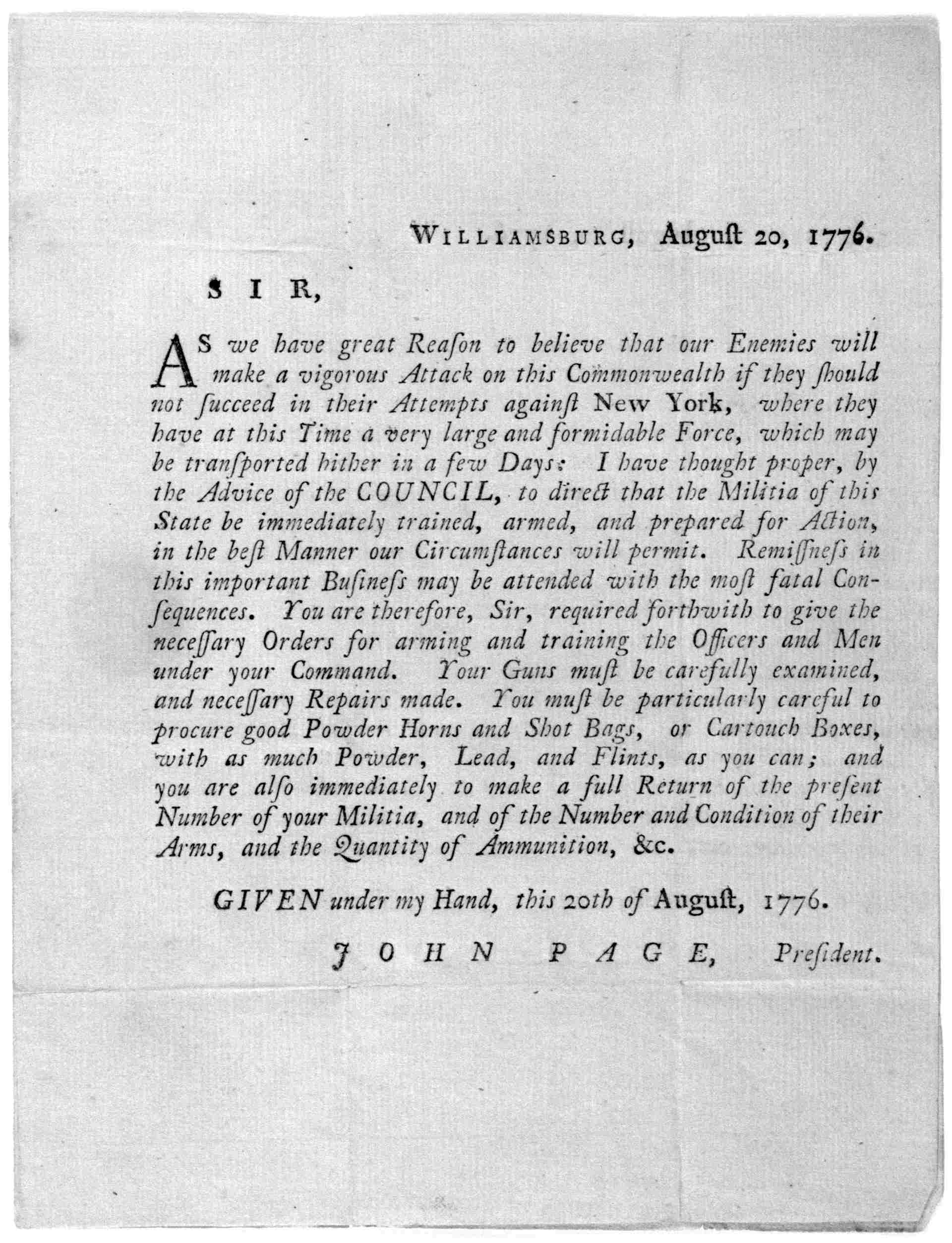 Printed broadside from August 1776 with statement by John Page, president of the Governor's Council of Virginia, and later himself Governor of the state following the Revolution, and warning of an imminent attack on the Virginia Colony by British forces. Page orders that the Virginia state militia be "Immediately trained, armed and prepared for action." Broadside printed at Williamsburg, Virginia. Credits The LIbrary of Congress, Washington, D. C. [1]